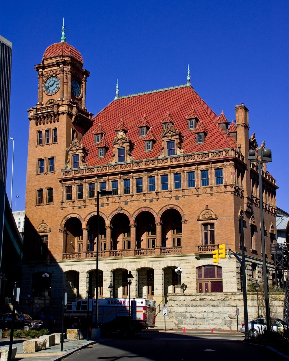 Main Street Station